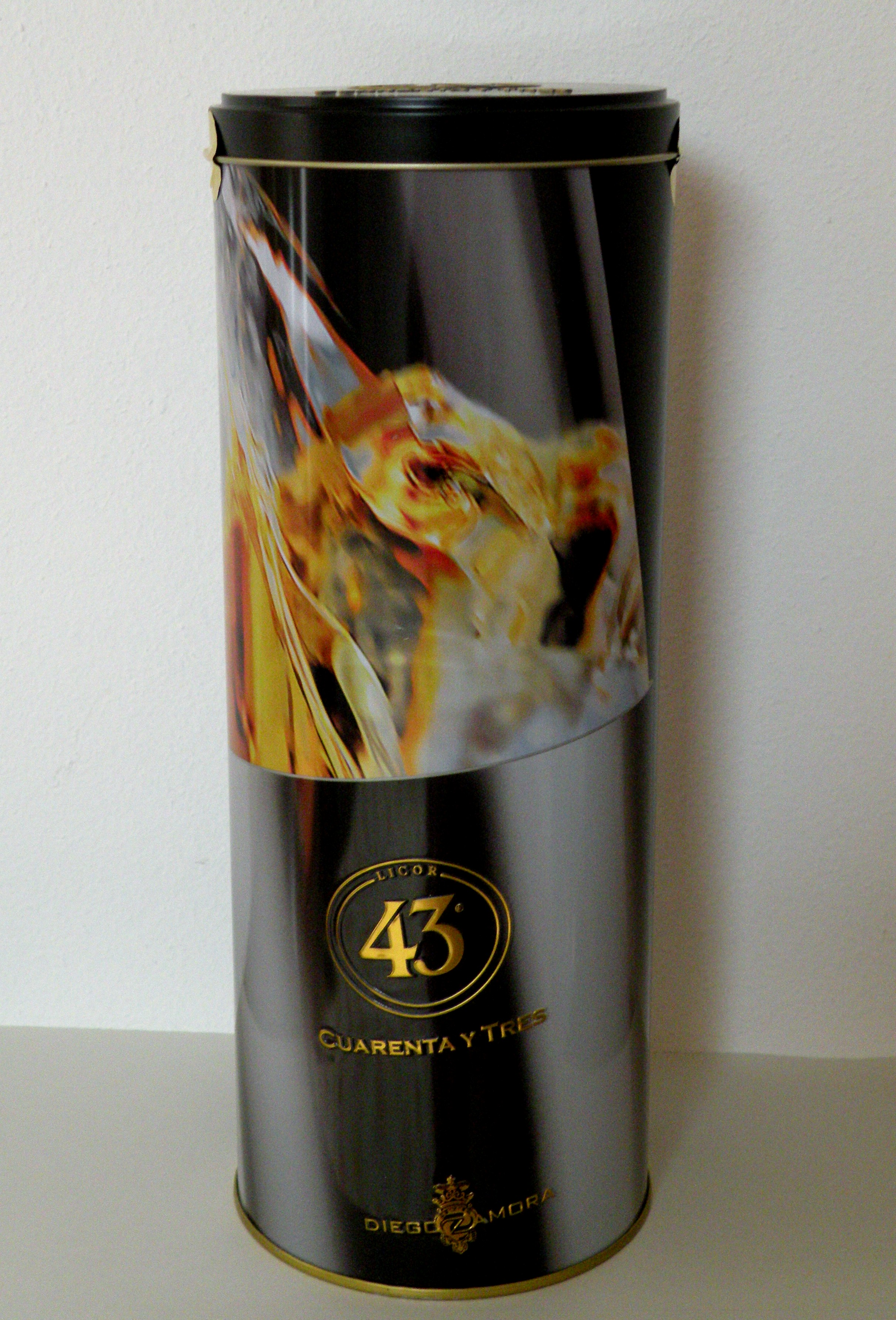 Gift box "43" liqueur